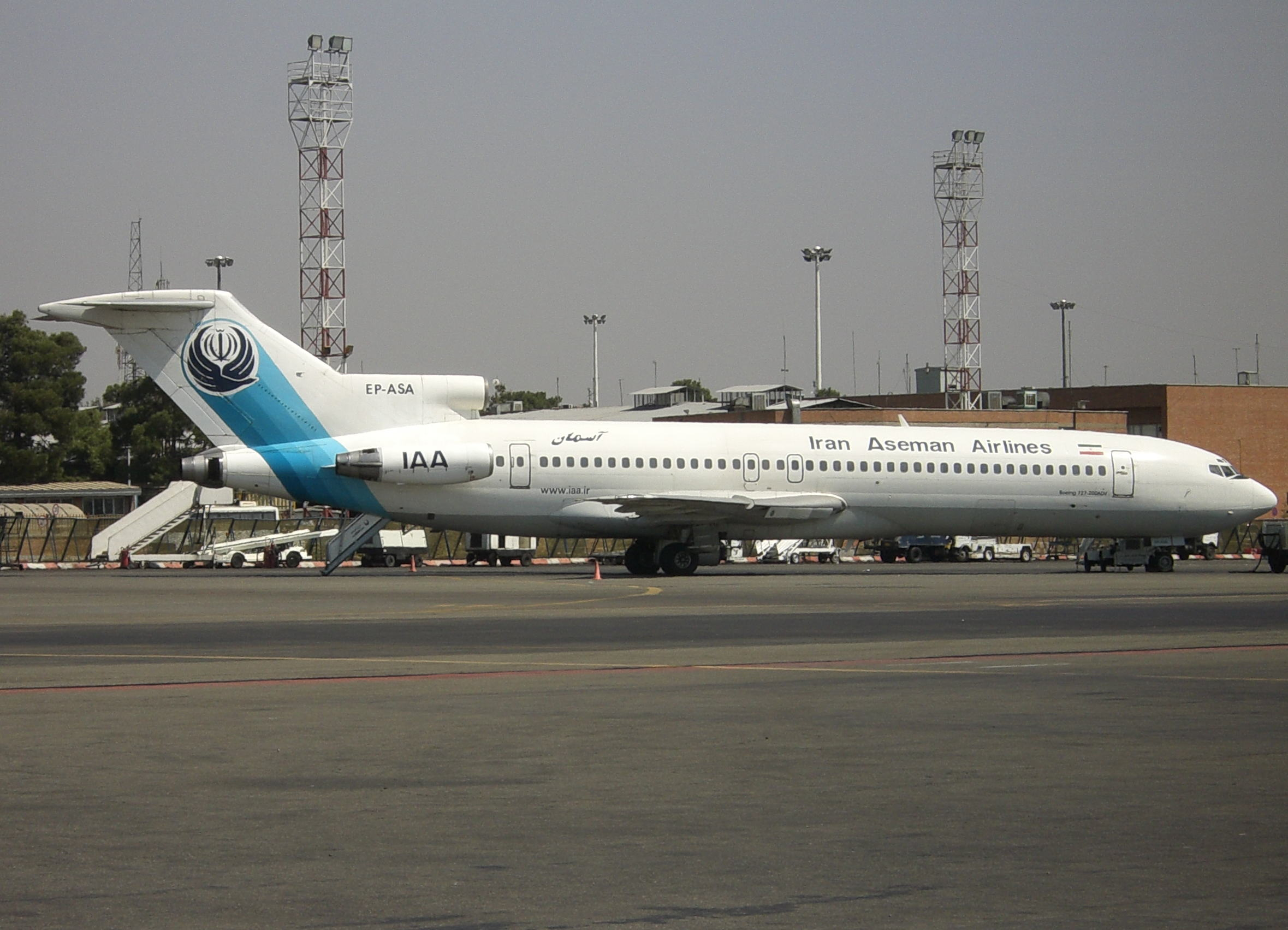 Iran Aseman Airlines B727 at Tehran